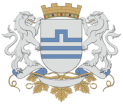 coat of arms of Podgorica. Created by Srđan Marlović.